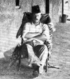 John Harrison Clark (reputedly) on his verandah.